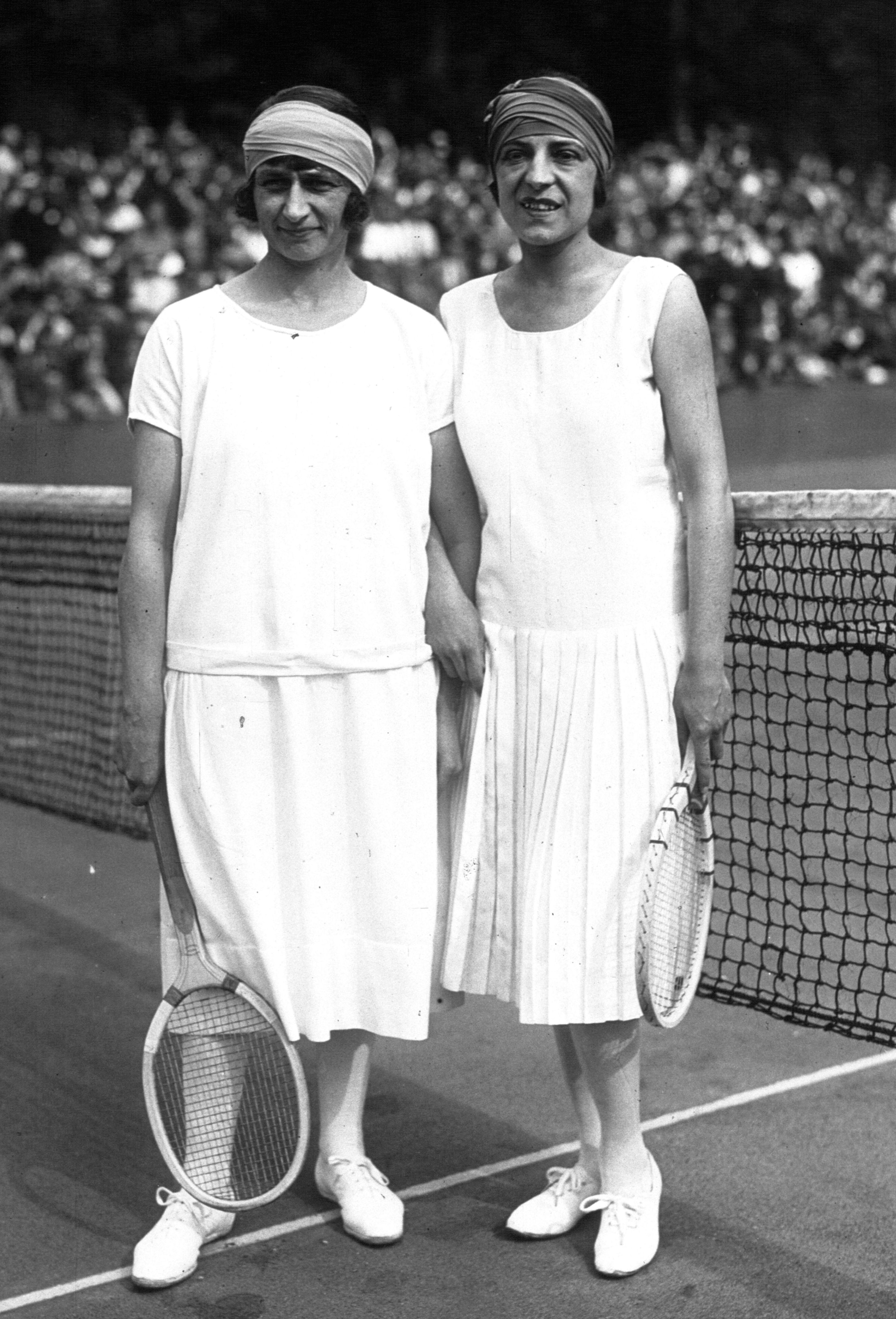 Tennis players Kathleen McKane Godfree (l.) and Suzanne Lenglen at the French Championships in Saint-Cloud in 1925.